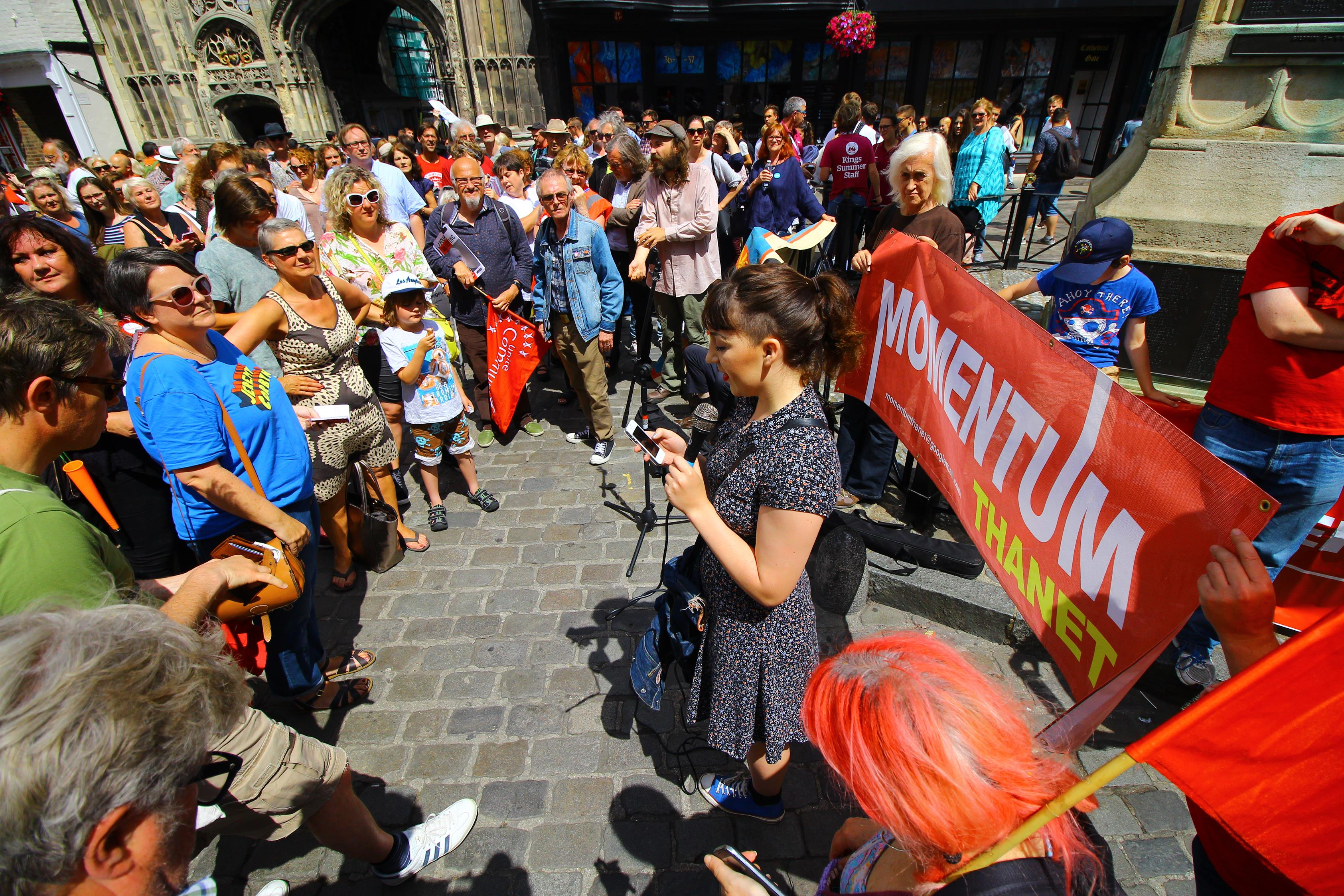 Momentum members at the "Rally for Corbyn" demonstration in Canterbury, 16 July 2016.